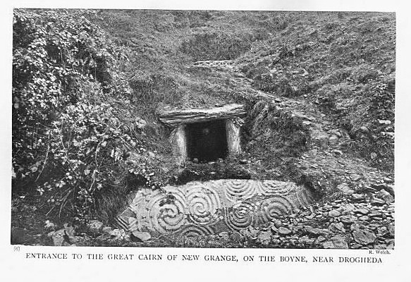 Entrance to Bru na BoinneFrom: Squire, Charles (n.d.), “Chapter 1: The Gods in Exile”, in [Celtic Myth And Legend Poetry And Romance, London: Gresham Publishing Company, page 136. Originally published under the title The Mythology of the British Islands, London: Blackie and Son, 1905.